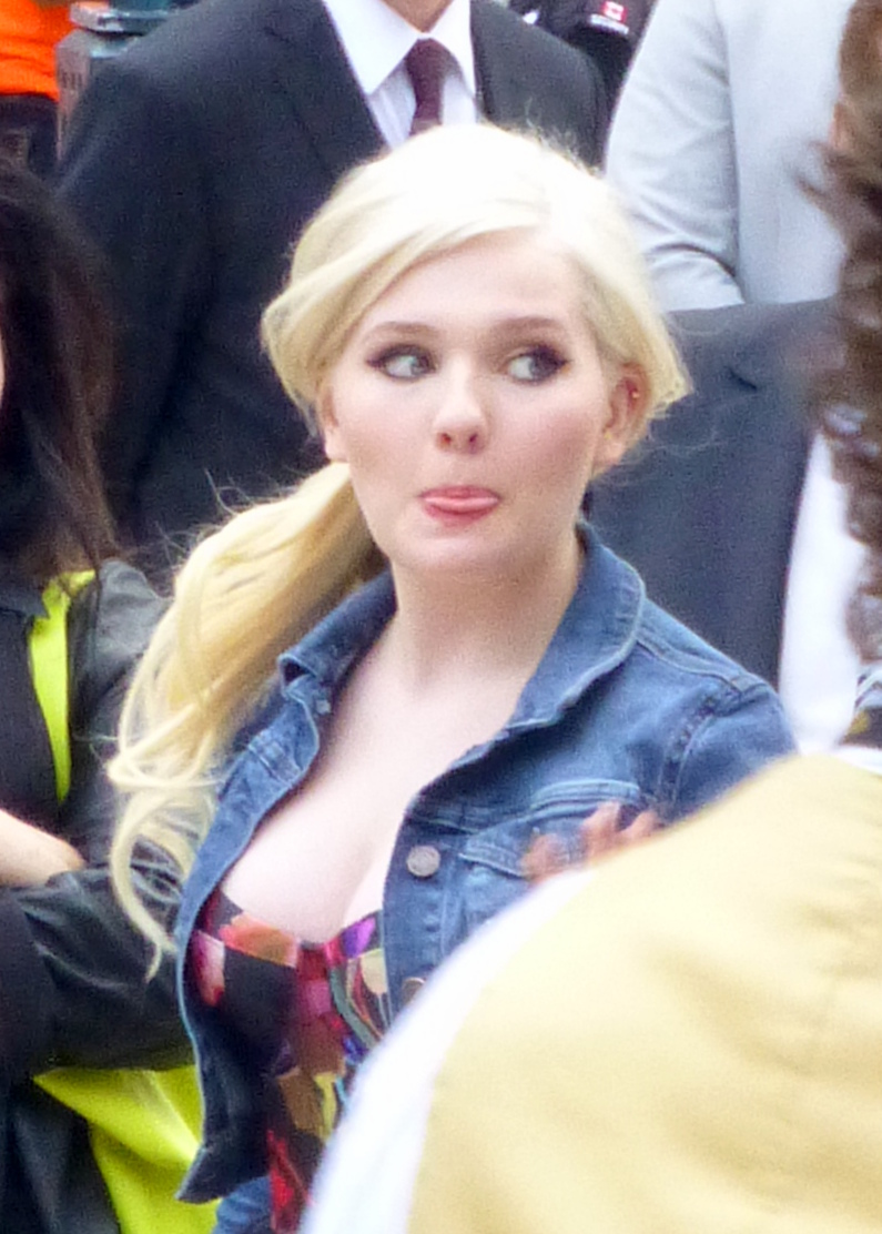 Abigail Breslin at the premiere of August: Osage County, Toronto Film Festival 2013